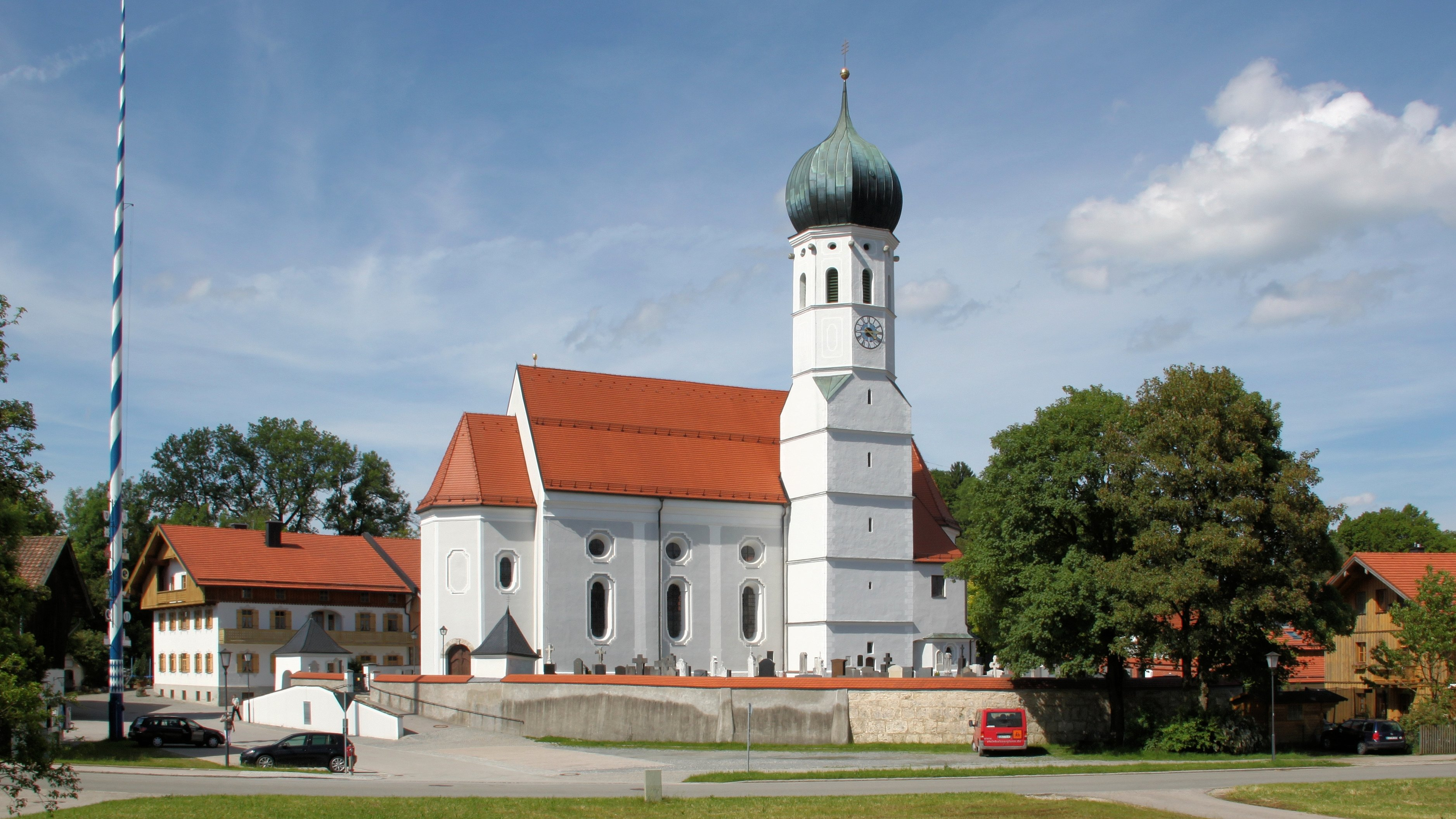 Kleinhelfendorf: St. Emmeram parish church.